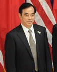 The opening of the Joint Commission on Commerce and Trade at the Nixon Library. Pictured is Chinese Customs Minister Sheng Guangzu.